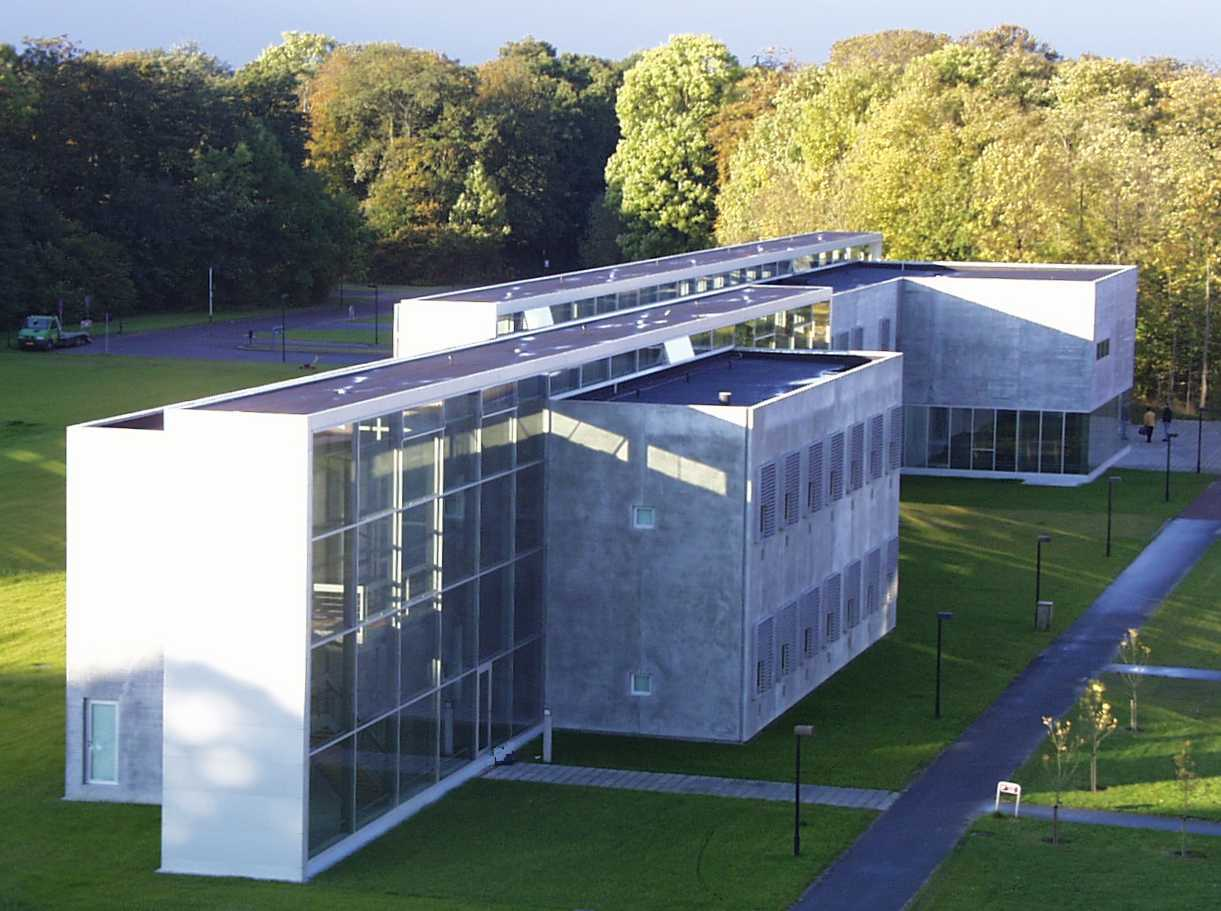 Mærsk Mc-Kinney Møller Instituttet